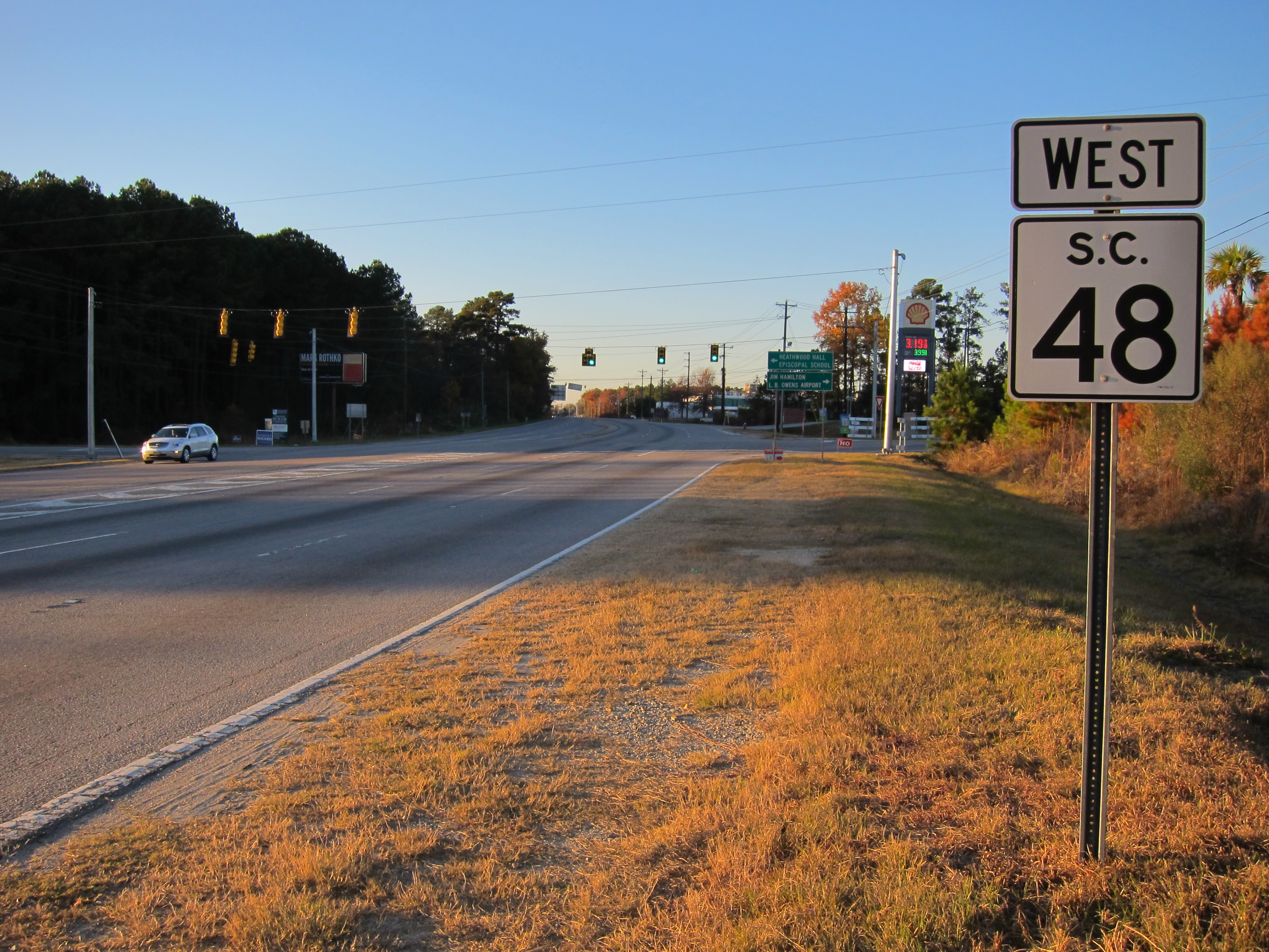 SC 48 westbound along Bluff Road, just past Interstate 77, in Columbia, South Carolina.